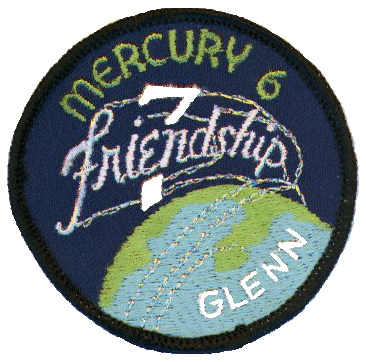 Mercury 6 - Patch It should be noted that that it wasn't until Gemini 5 that mission patches were used. This was created much after the actual flight.